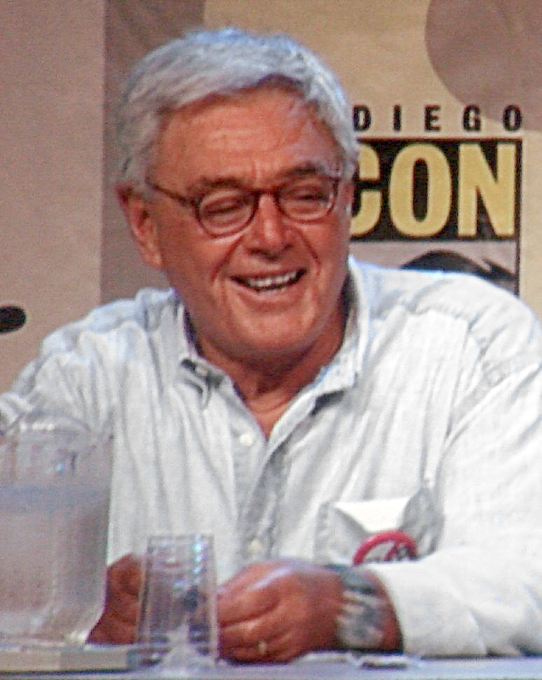 Richard Donner photo